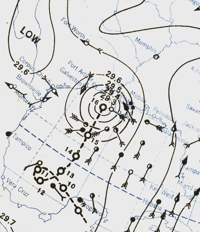 Surface weather analysis of the 1934 Central America hurricane nearing landfall on Louisiana, cropped from a larger analysis map of the North Atlantic on June 16, 1934.